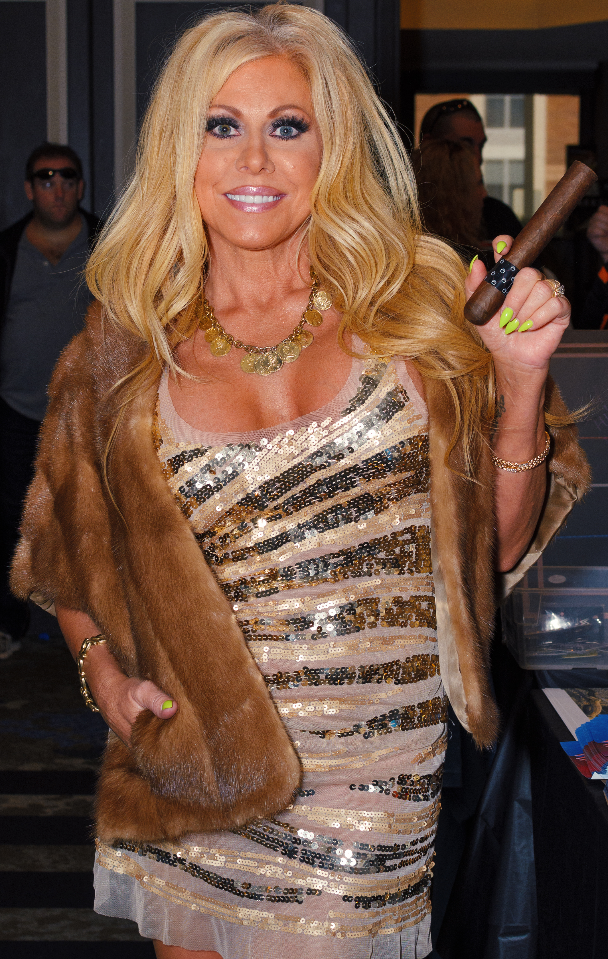 Terri Runnels at the Chiller Theatre Expo at the Hilton Parsippany Hotel in Parsippany, NJ. Saturday, October 28, 2017.